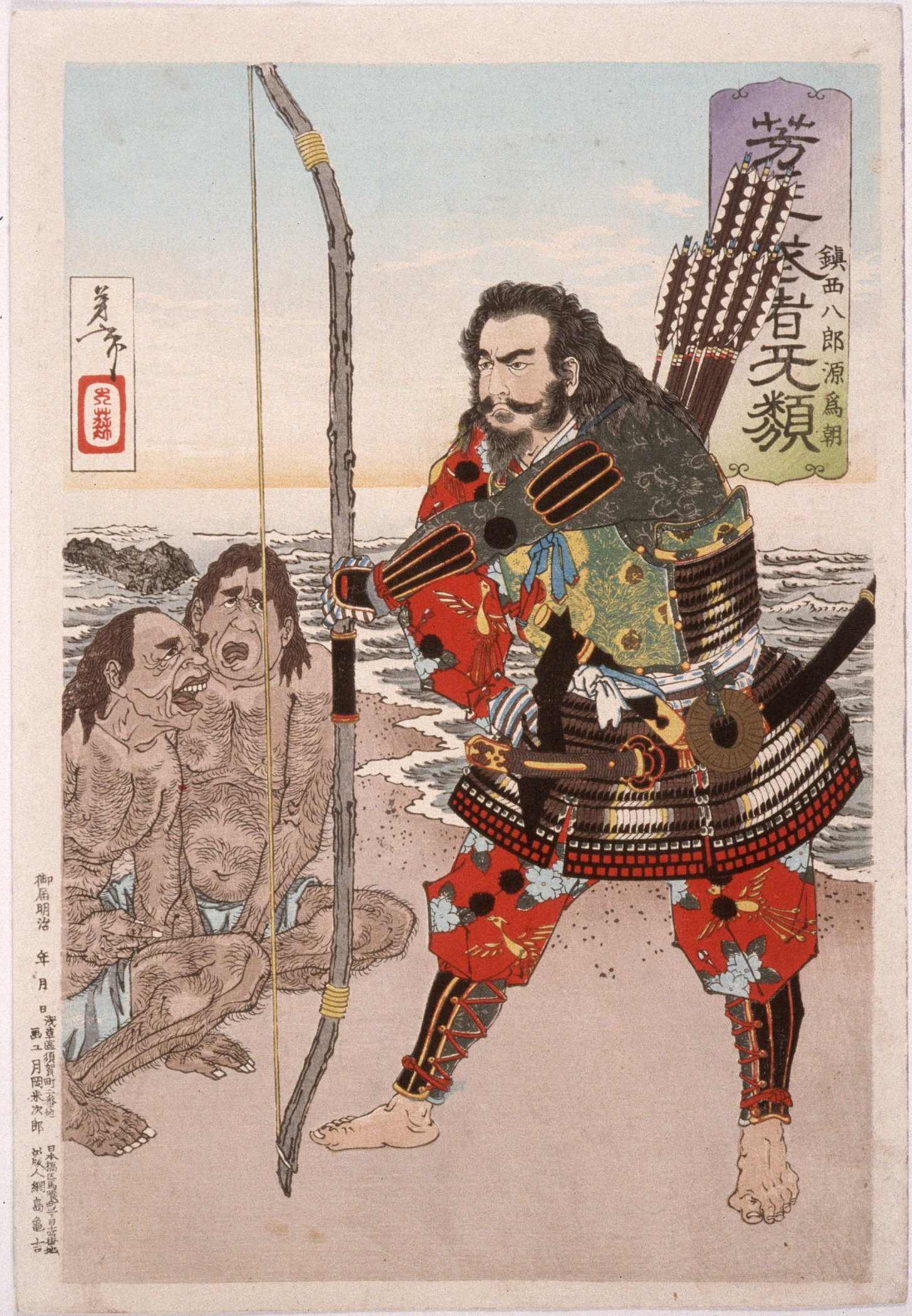 Japan, 1886, 10th month Series: Yoshitoshi's Warriors Trembling with Courage Prints; woodcuts Color woodblock print Herbert R. Cole Collection (M.84.31.92) Japanese Art 源為朝と葦島の流人。為朝は弓の名手として知られた